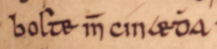 An excerpt from folio 39r of Oxford Bodleian Library MS Rawlinson B 489 (the Annals of Ulster). The excerpt concerns Boite mac Cináeda.